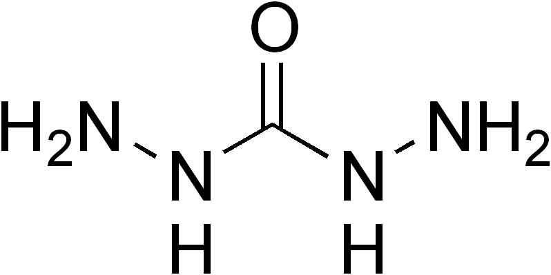 chemical structure of carbohydrazide